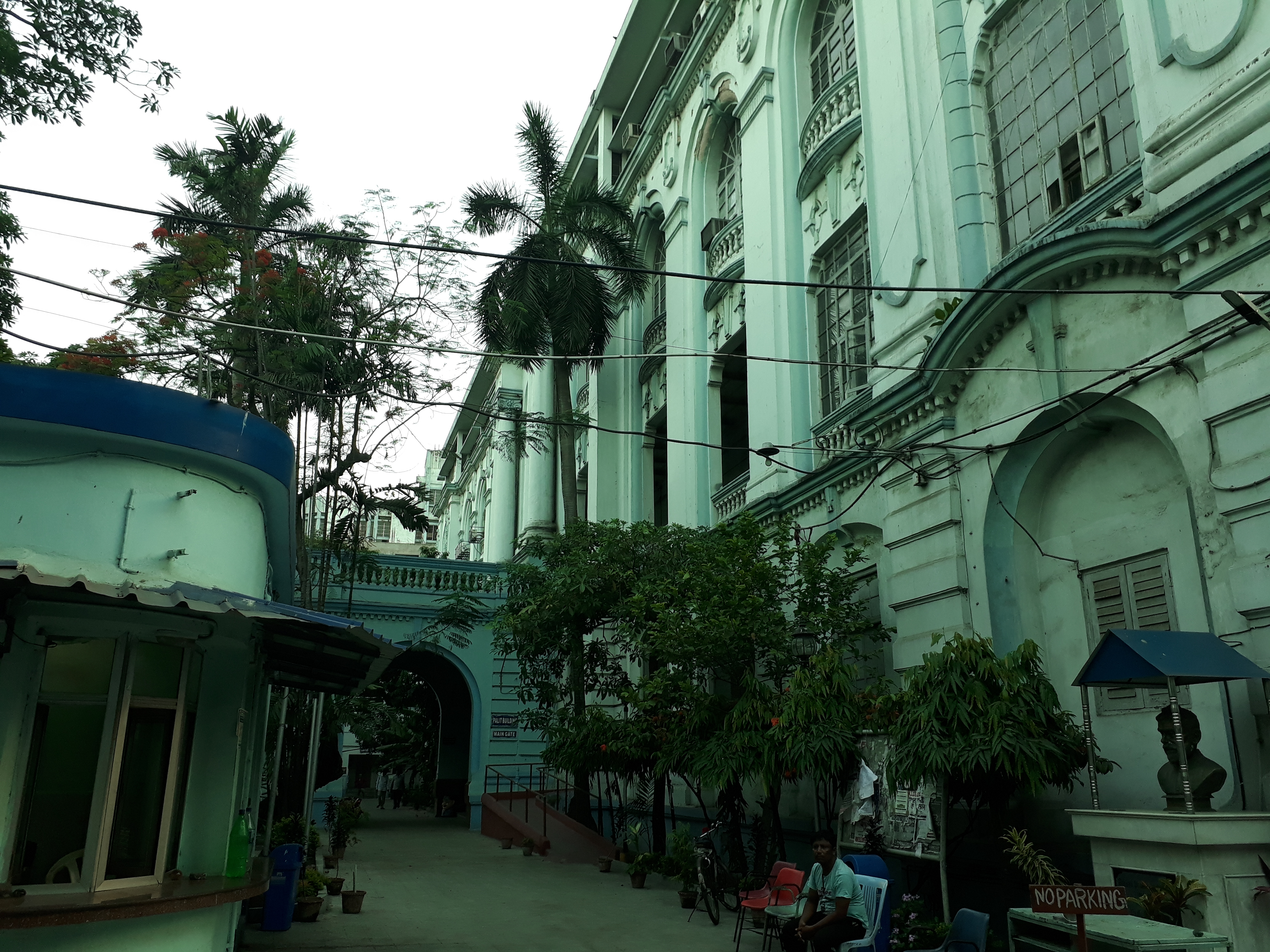 Rajabajar Science College, Kolkata